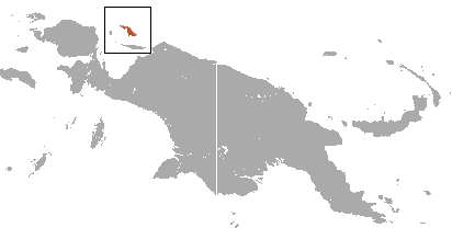 Biak Glider (Petaurus biacensis) range